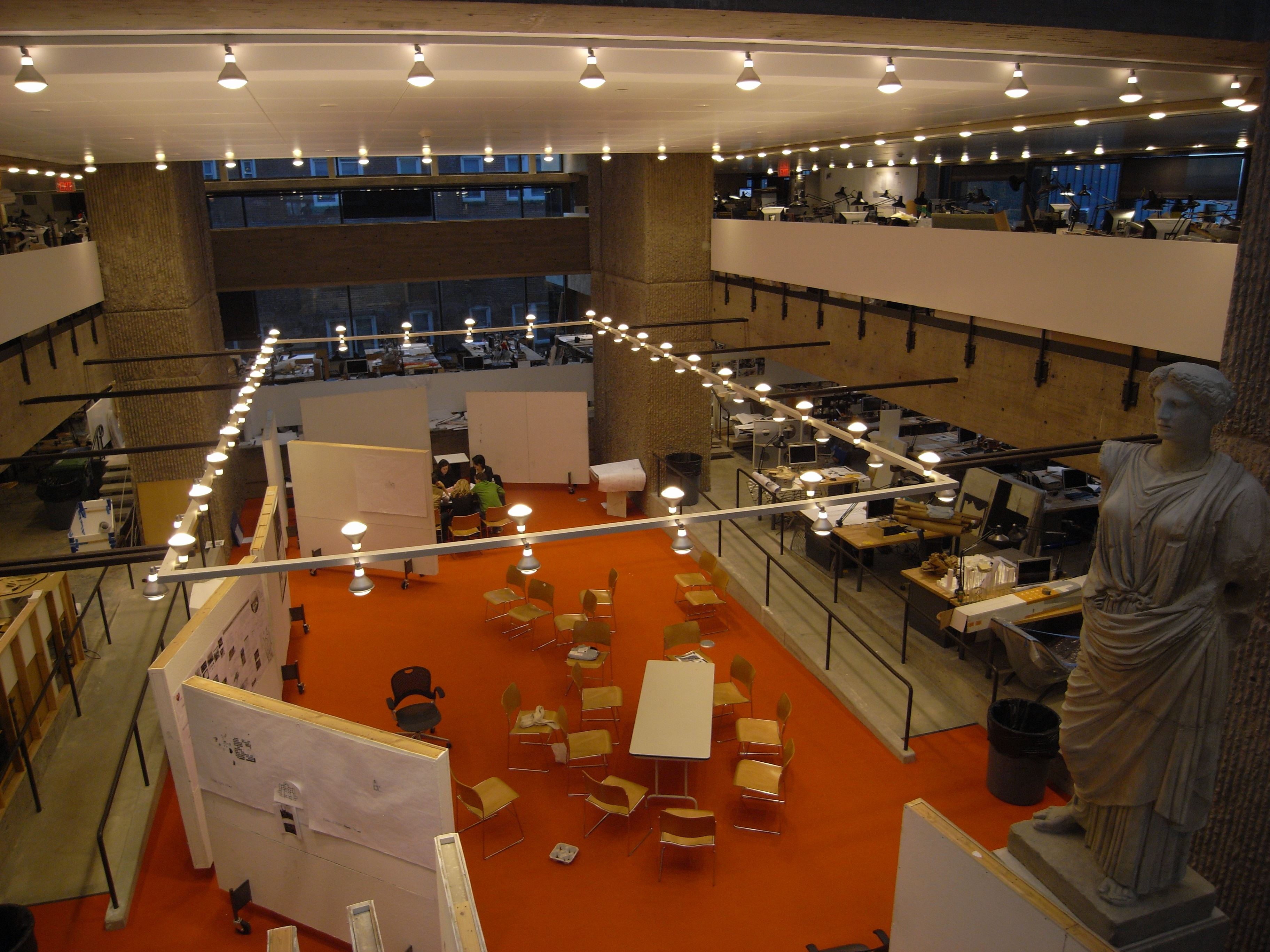 Review pit on the 4th floor of Rudolph Hall (formerly Art & Architecture Building), Yale University